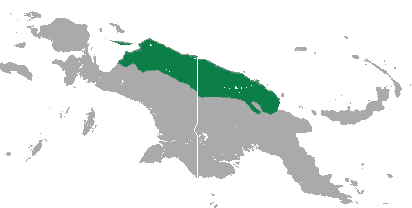 Clara's Spiny Bandicoot (Echymipera clara) range